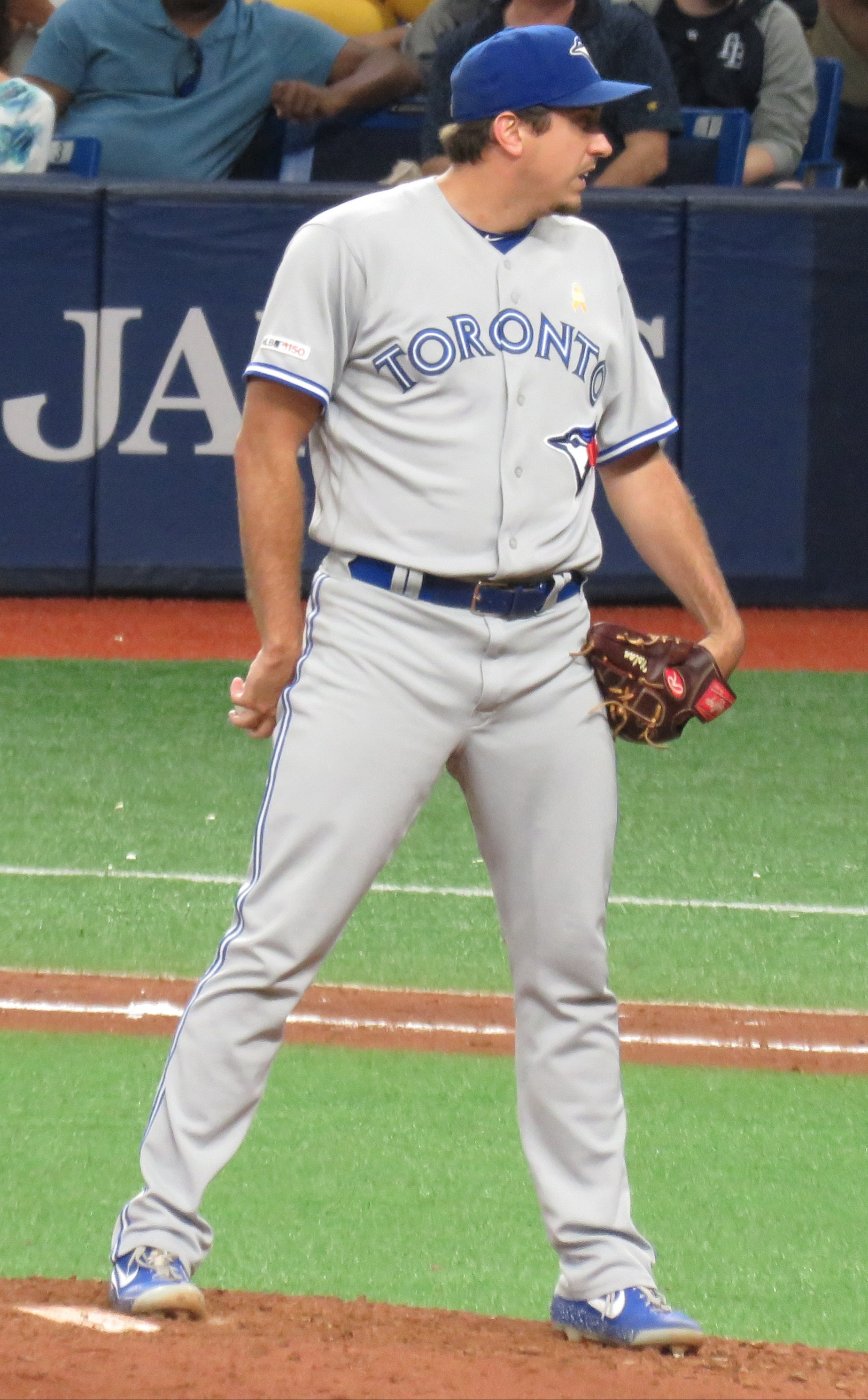 Derek Law